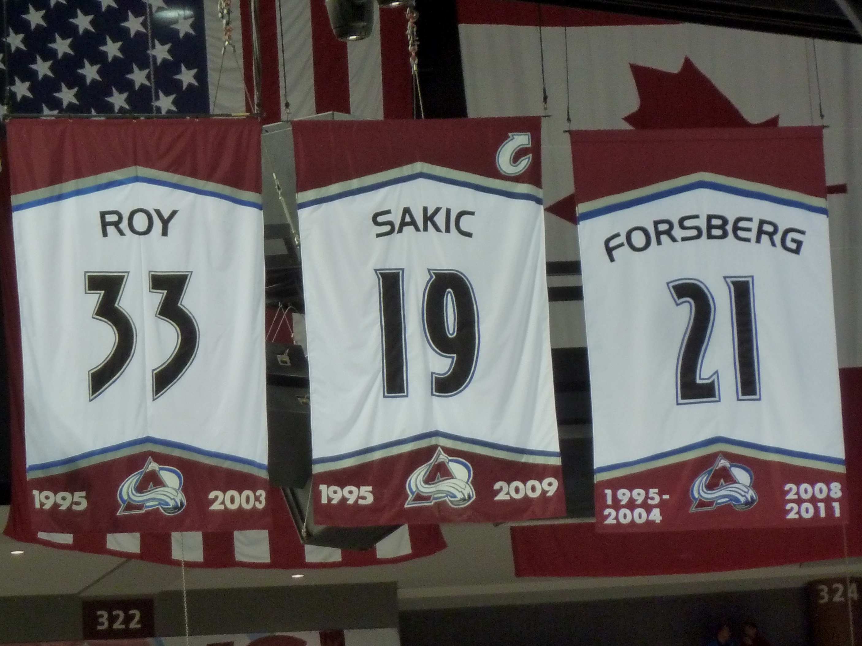 Three (Patrick Roy, Joe Sakic, Peter Forsberg) of the four retired Colorado Avalanche jersey's hang from the rafters at Pepsi Center. Denver. Pepsi Center, 8th Oct 2011